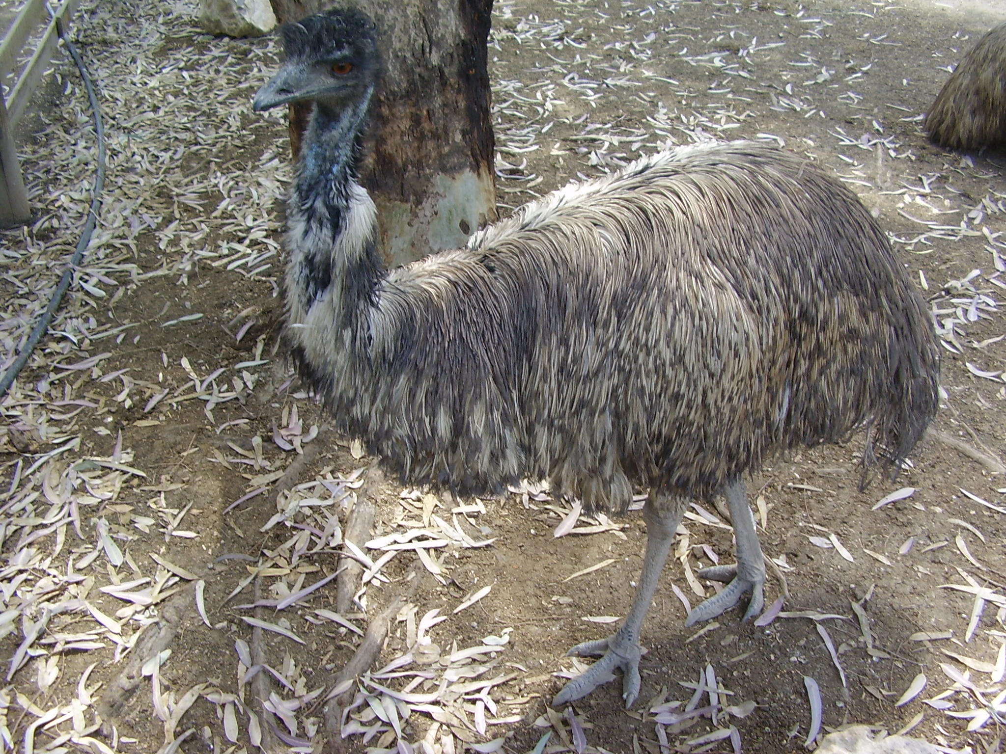 Emu in australia park (guru park), israel